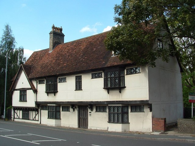 Weavers, Lexden